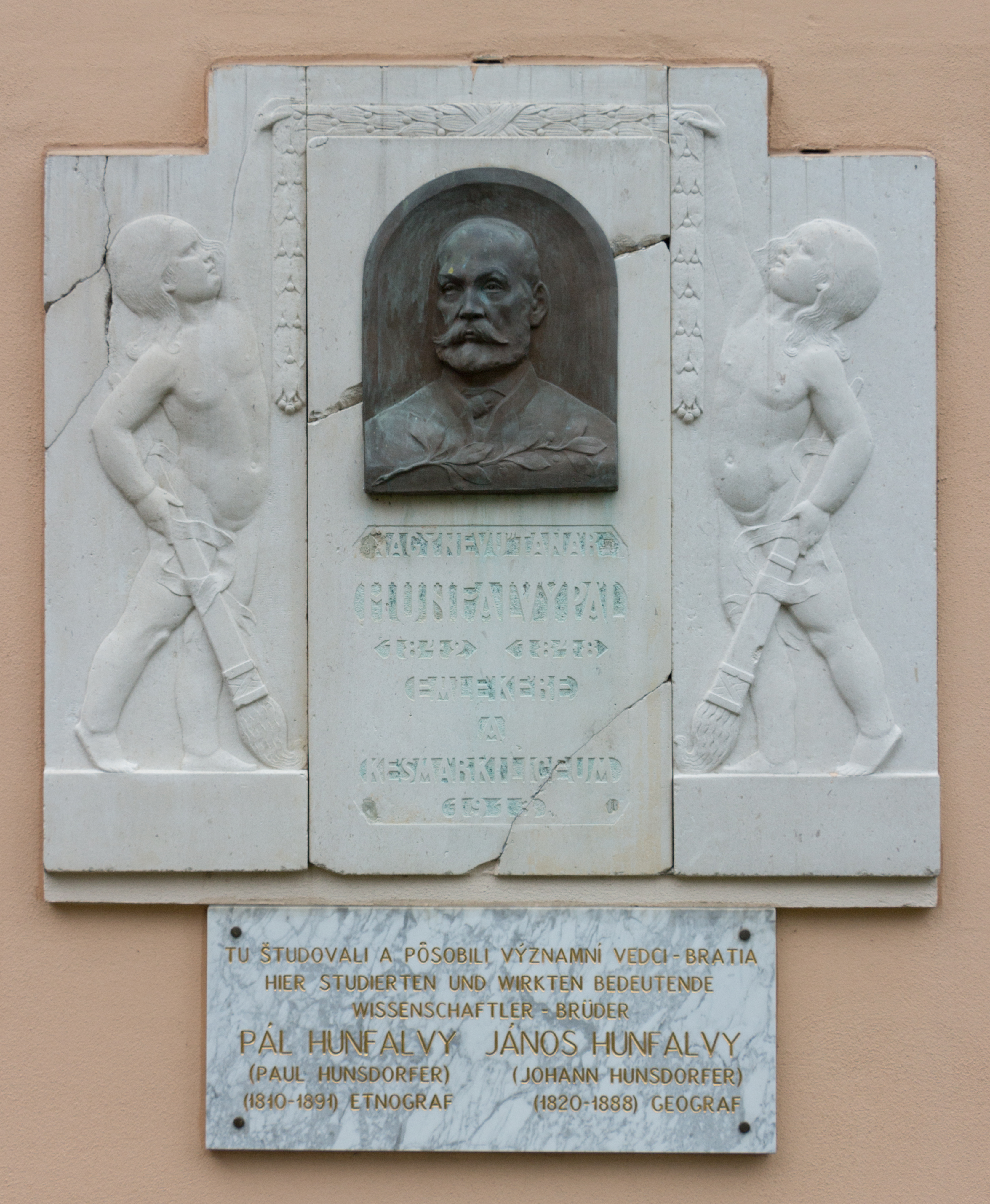 Plaque on the wall of Lyceum in Kežmarok. Slovakia